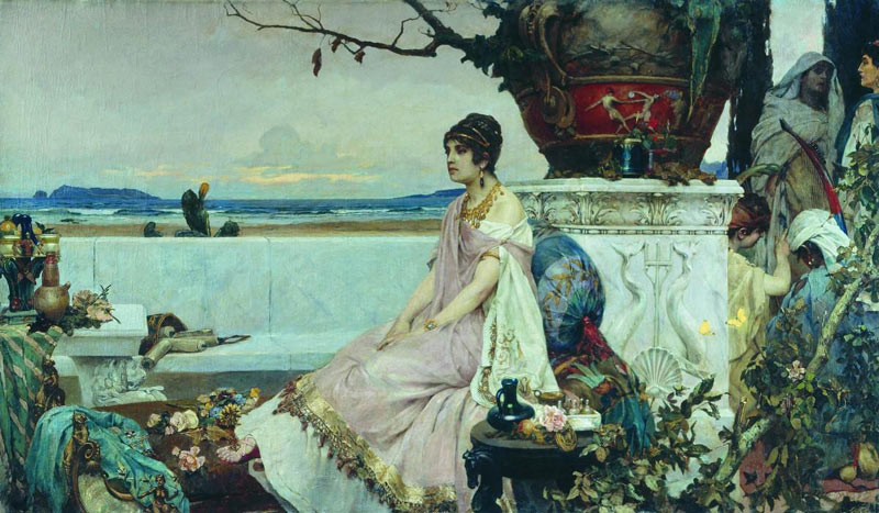 Roman Woman at a Reservoir